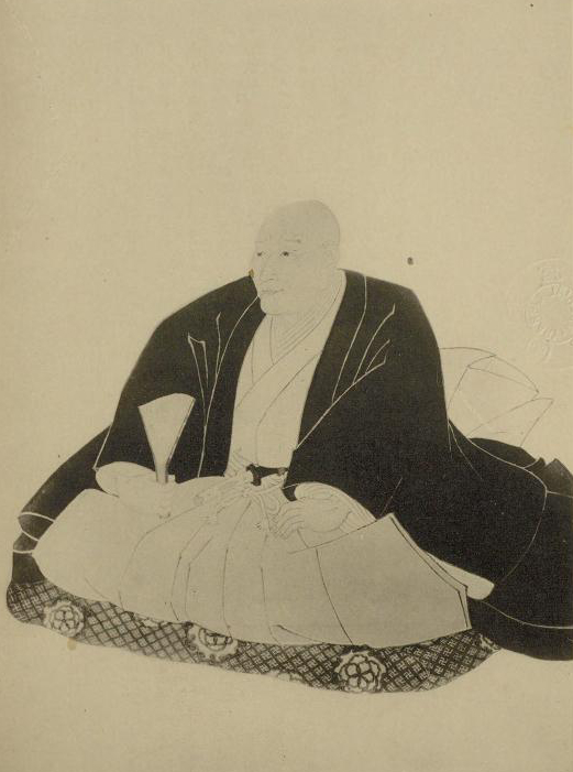 Portrait of Habu Genseki